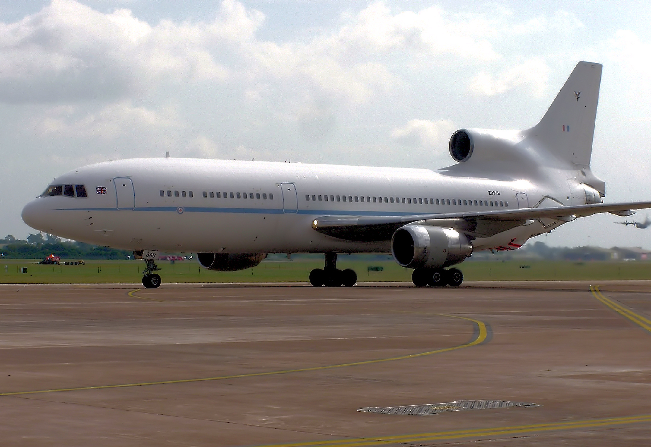 Royal Air Force Lockheed Tristar K1 (ZD949) at Fairford Air Show, Gloucestershire, England.